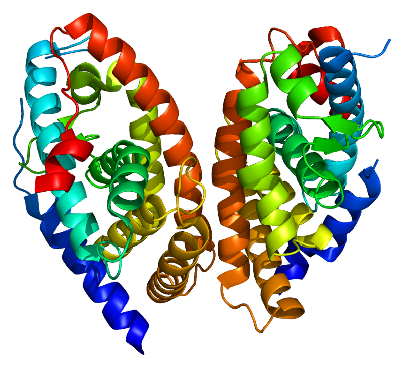 Structure of the RARA protein. Based on PyMOL rendering of PDB 1dkf.